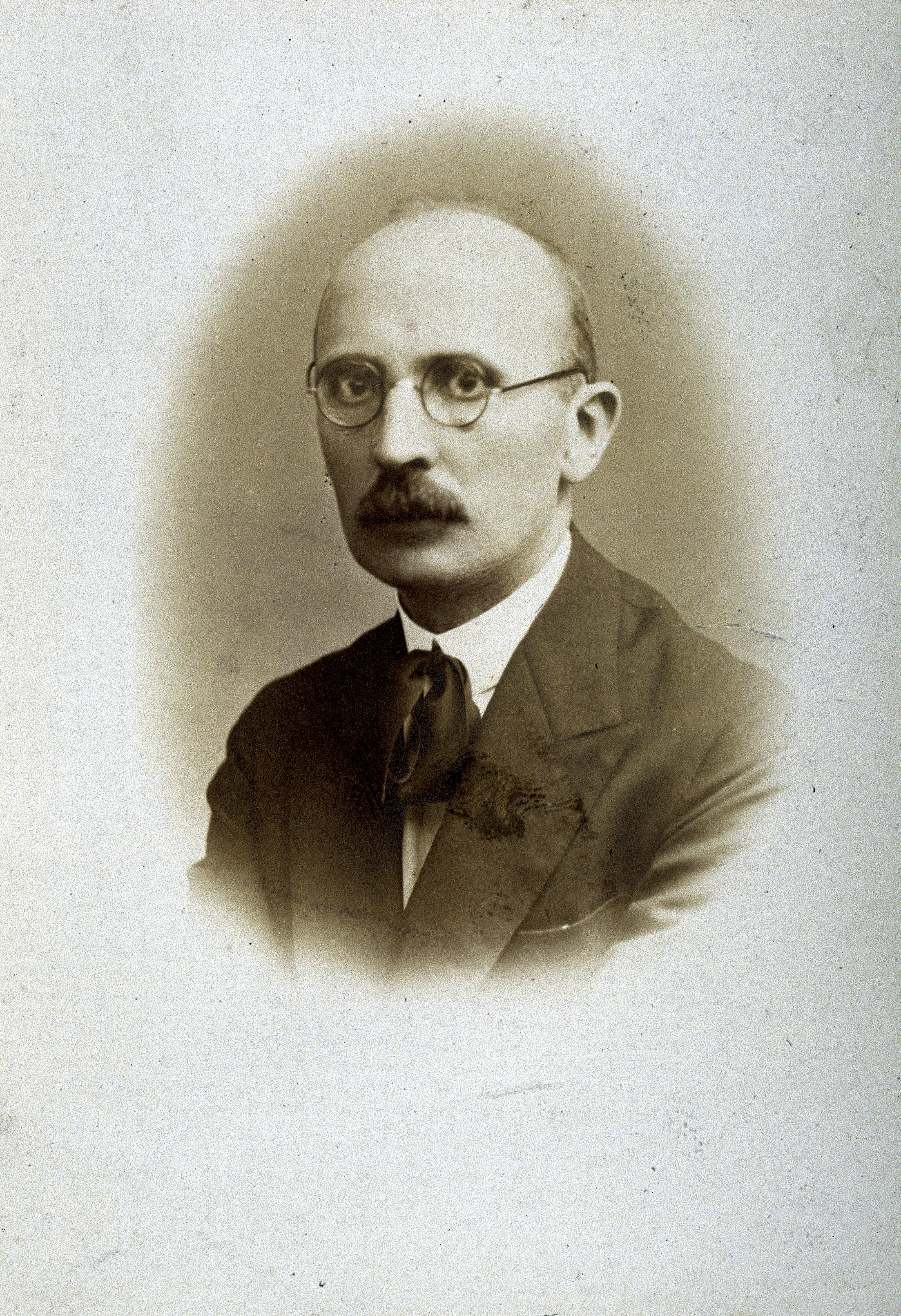 Michel Ciuca. Photograph. Iconographic Collections Keywords: portrait photographs